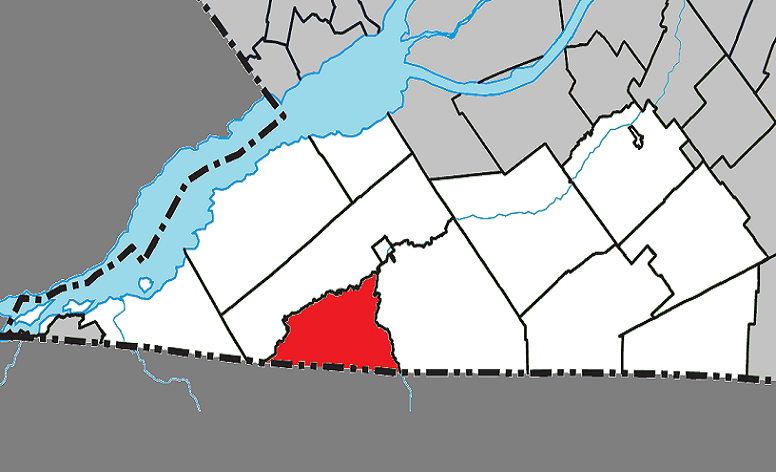 Location of Elgin, Quebec within Le Haut-Saint-Laurent Regional County Municipality.